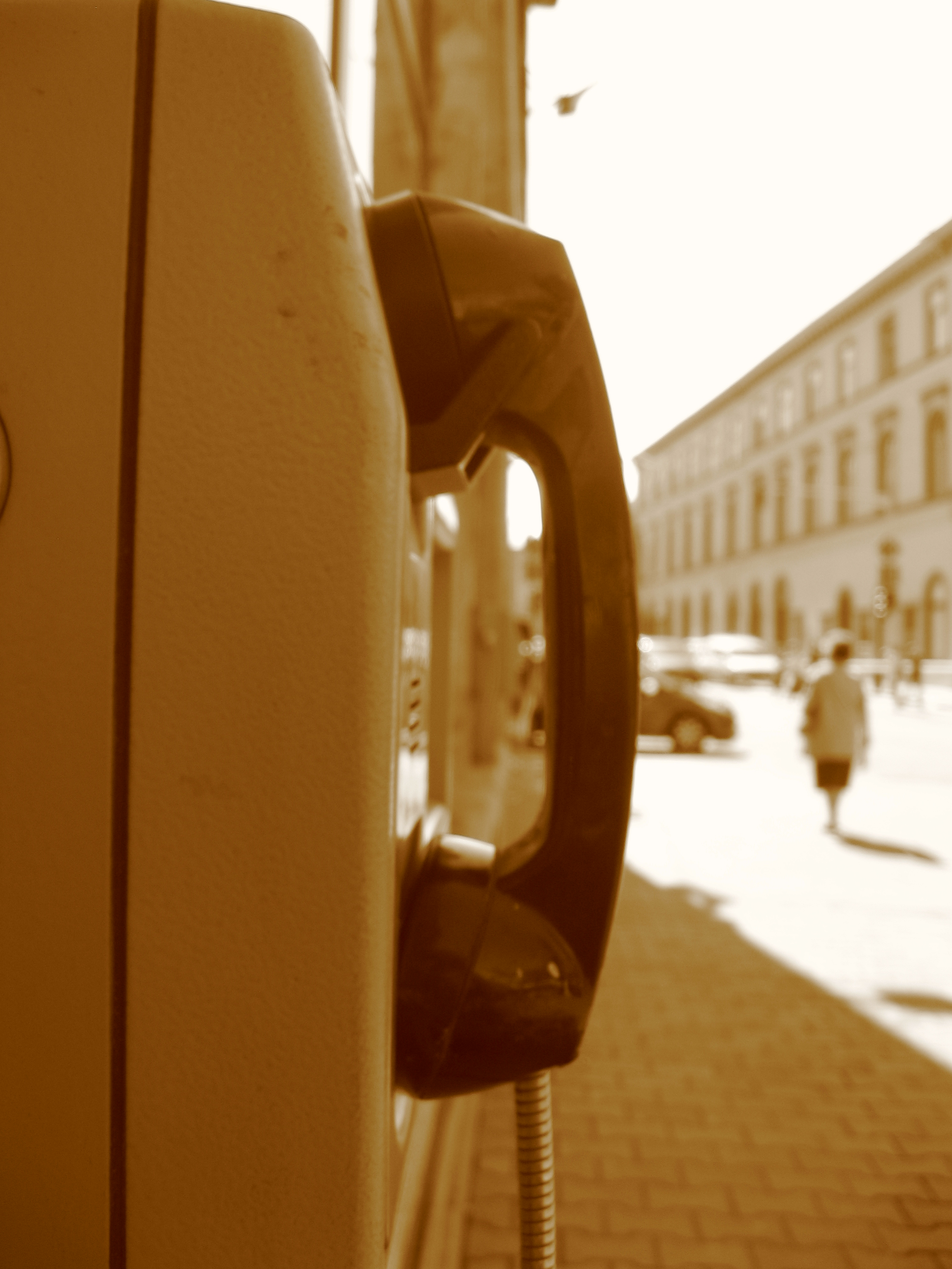 Public phone